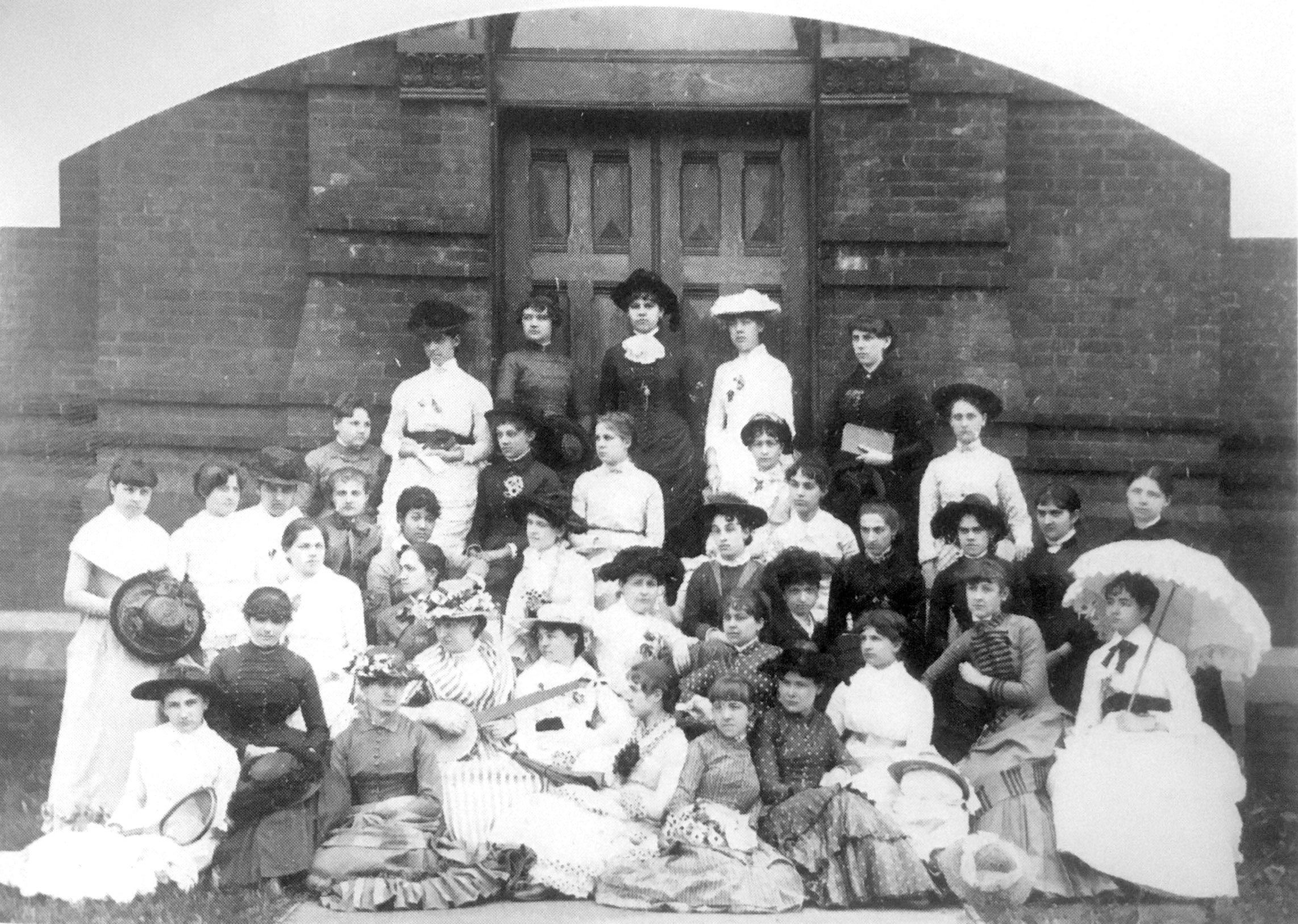 Vassar College Class of 1882. The Back row far right is the future Japanese educator Sutematsu Yamakawa.